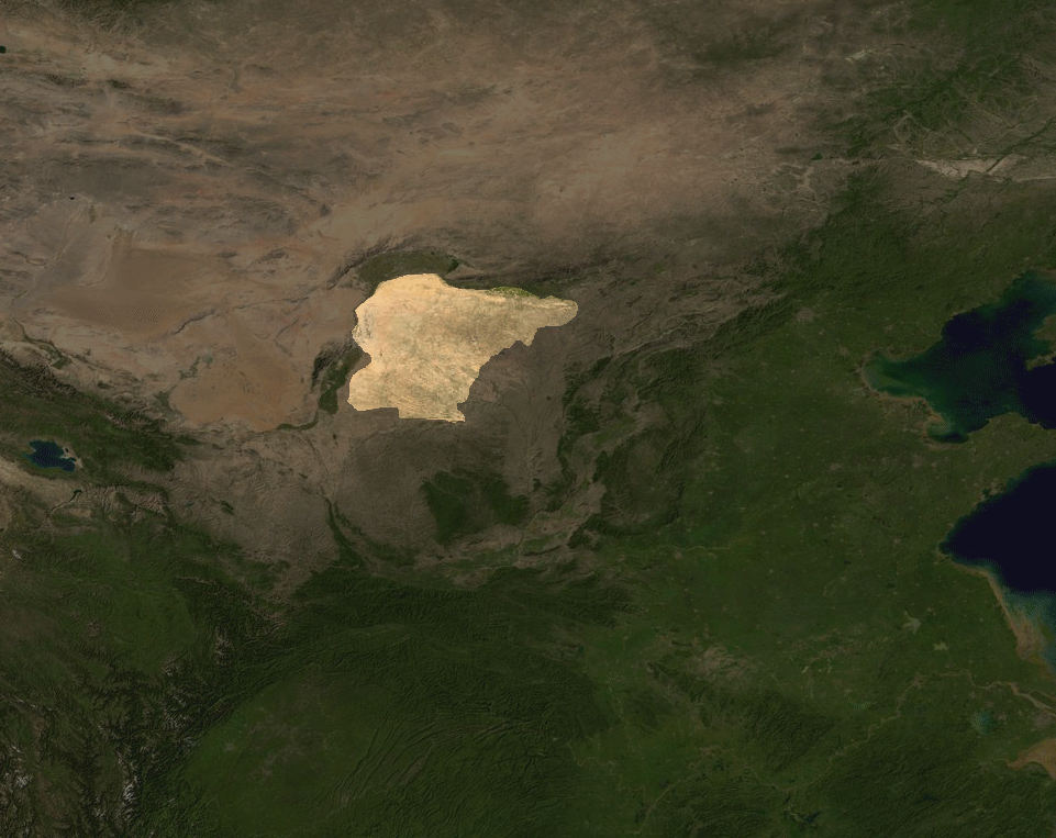 Position of Ordos Desert.